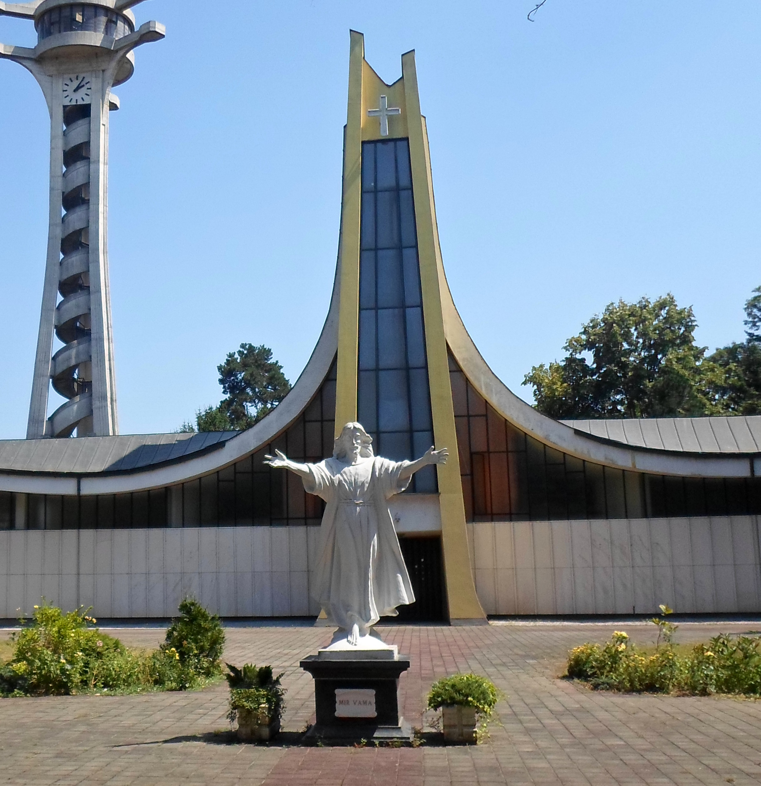 Katedralna crkva Sv. Bonaventure